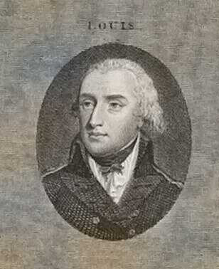 Victors of the Nile (with 15 cameo portraits of naval officers) (proof) As Nelson said after the Battle of the Nile in 1798, ‘Victory is not a name strong enough for such a scene’. His captains are all commemorated in this celebratory engraving published five years later; Thomas Foley, Samuel Hood, Sir James Saumarez, David Gould, Ralph Miller, Sir Edward Berry, Thomas Louis, John Peyton, Henry Darby, George Westcott (killed in the battle), Thomas Thompson, Alexander Ball, Benjamin Hallowell, Thomas Troubridge and Thomas Hardy. Nelson was made Baron Nelson of the Nile, and adopted the motto ‘Palmam qui meruit ferat’ (Let he who has earned it bear the Palm). Victors of the Nile (with 15 cameo portraits of naval officers) (proof)